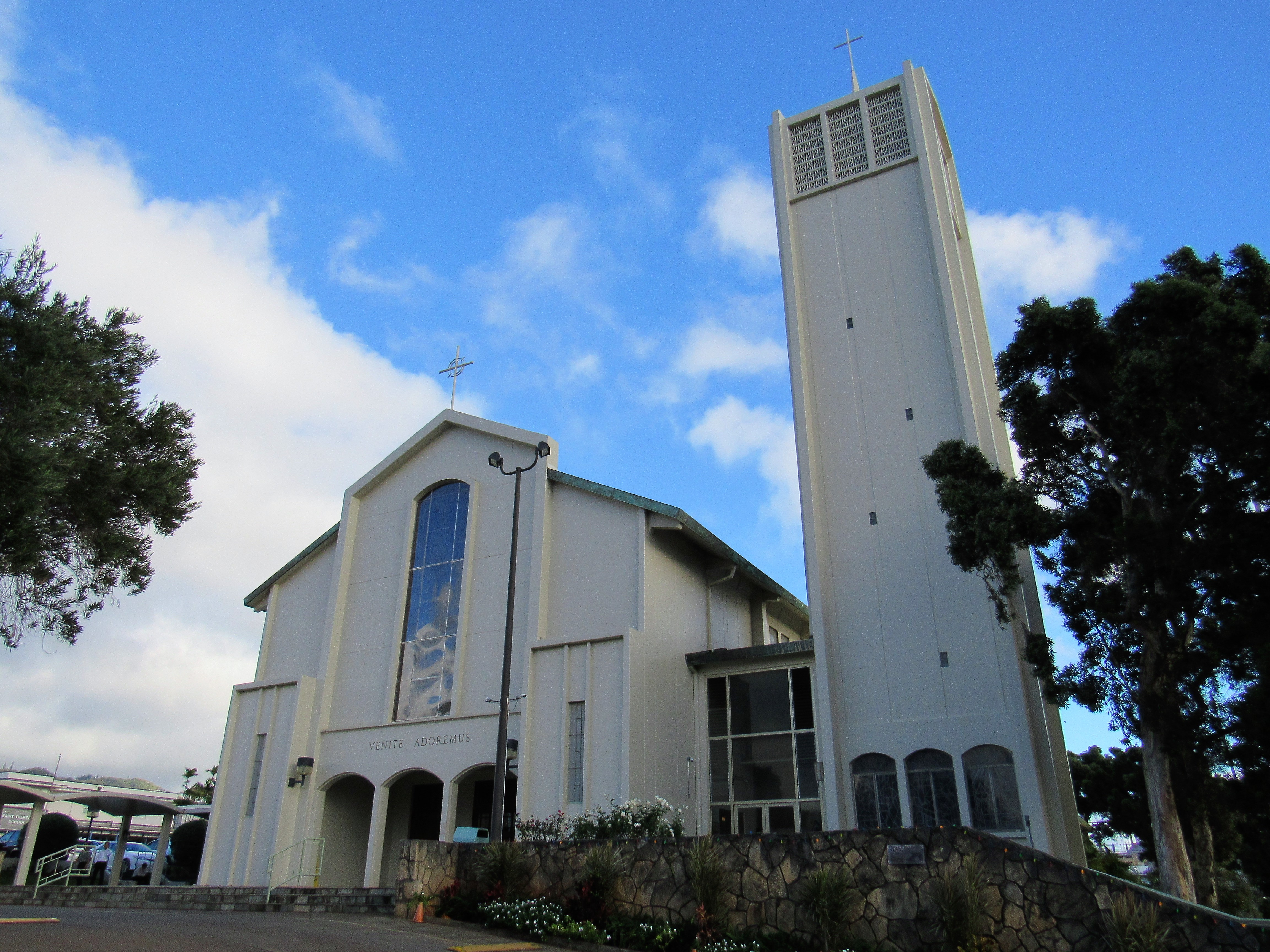 Co-Cathedral of Saint Theresa of the Child Jesus - Honolulu, Hawaii.